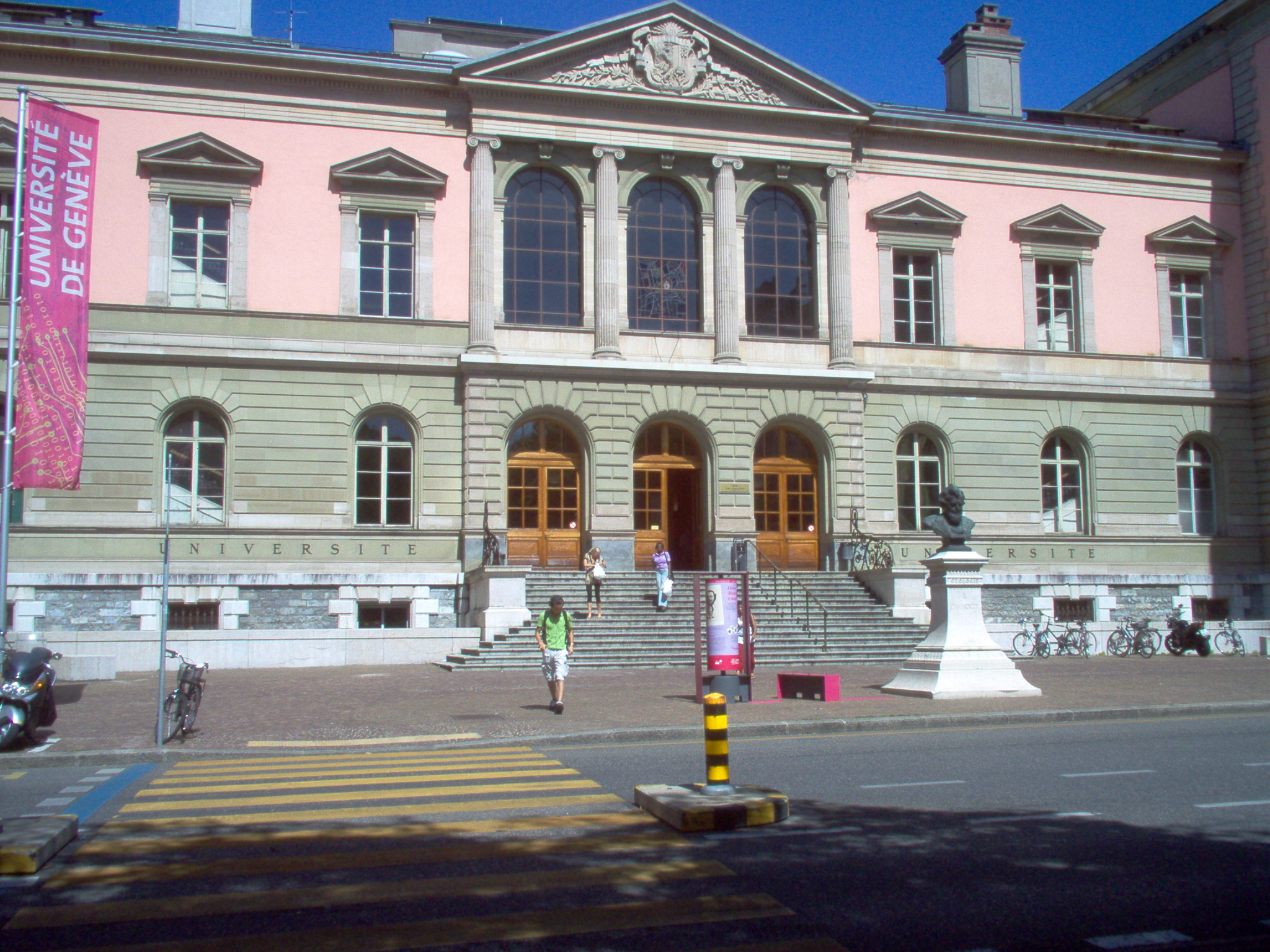 Geneva University